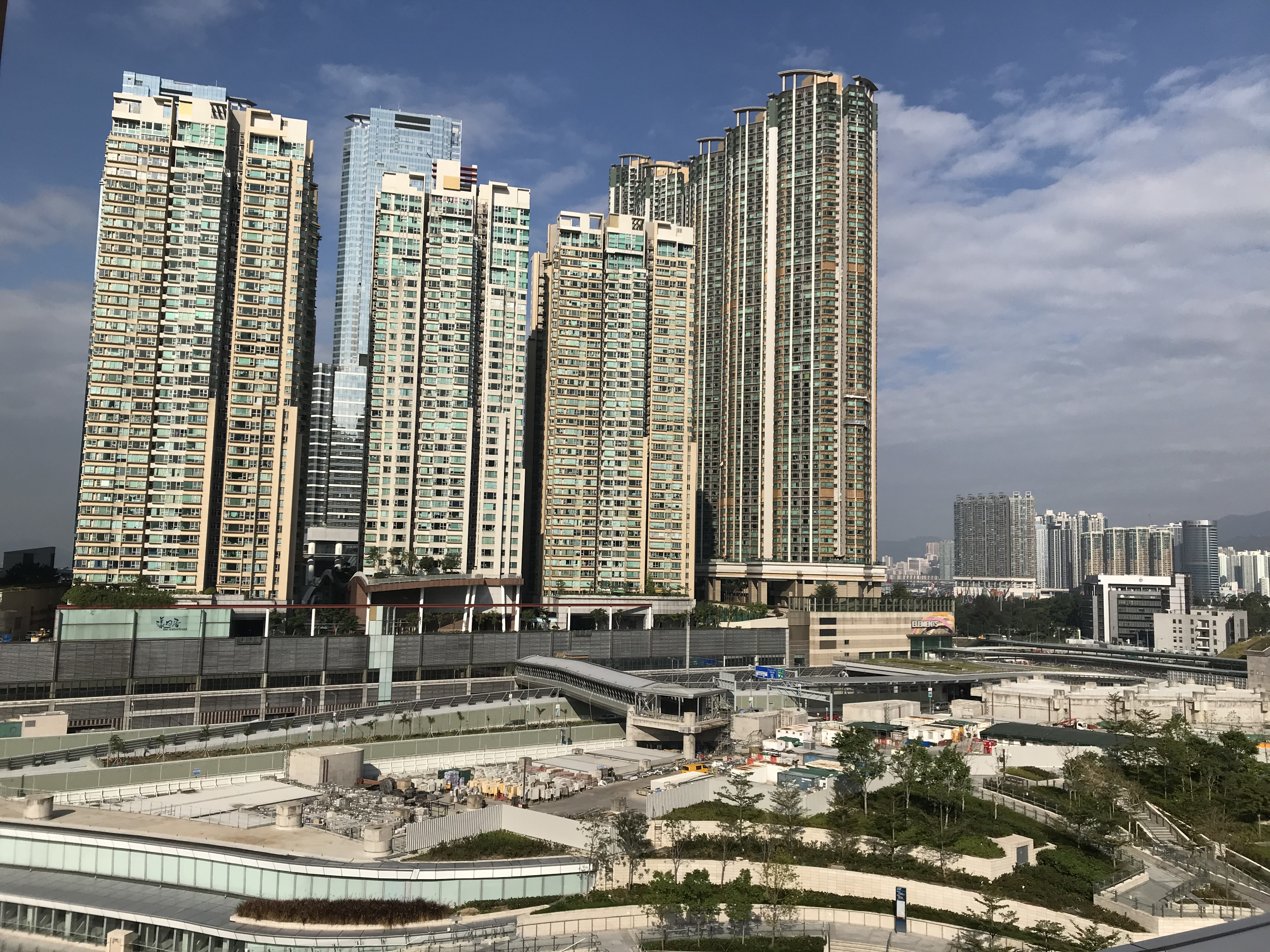 Viewed from the Sky Corridor of Hong Kong West Kowloon Station